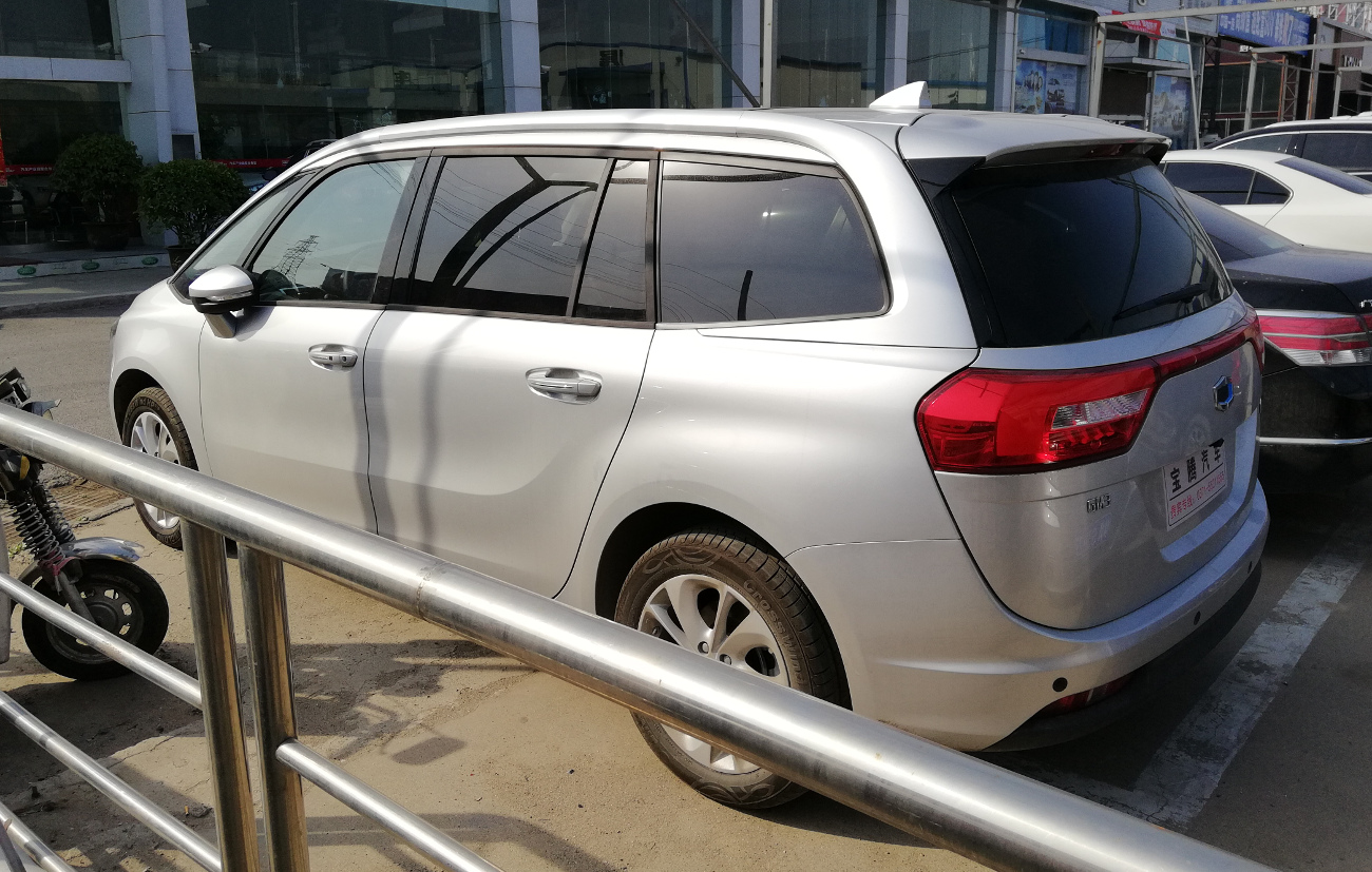 Sinogold GM3 photographed in Zhengzhou, Henan province, China.